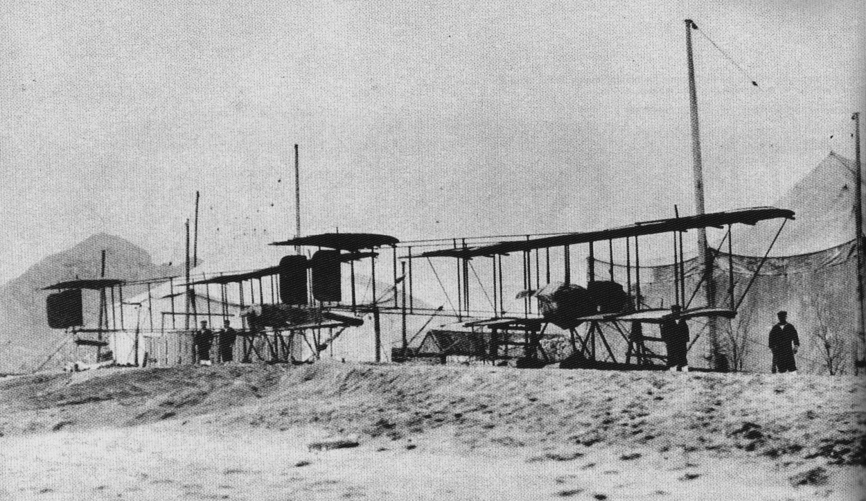 Two of the Imperial Japanese Navy's Maurice-Farman airplanes in Tsingtao, China, 1914.